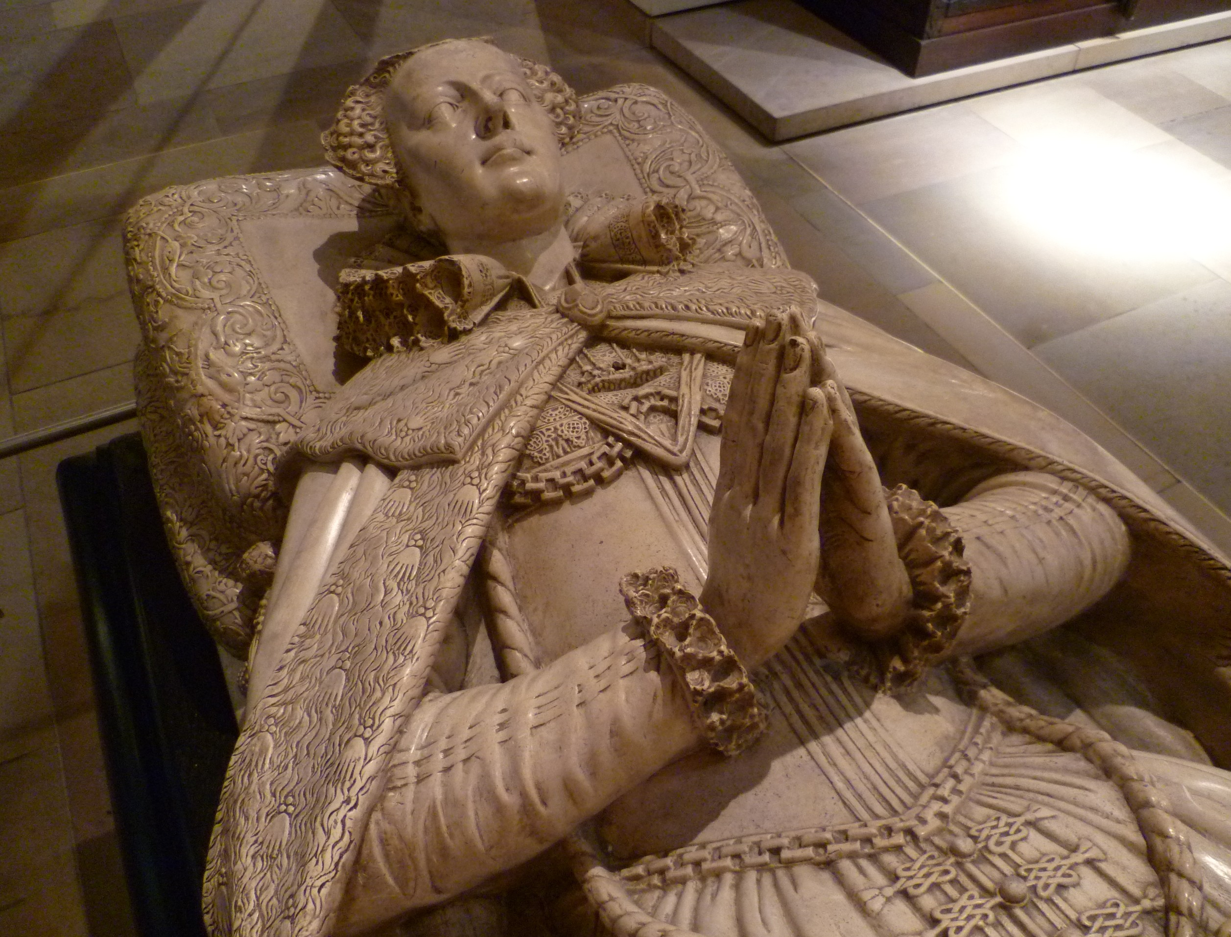 A copy of the effigy of Mary, Queen of Scots on her tomb in Westminster Abbey. National Museum of Scotland.